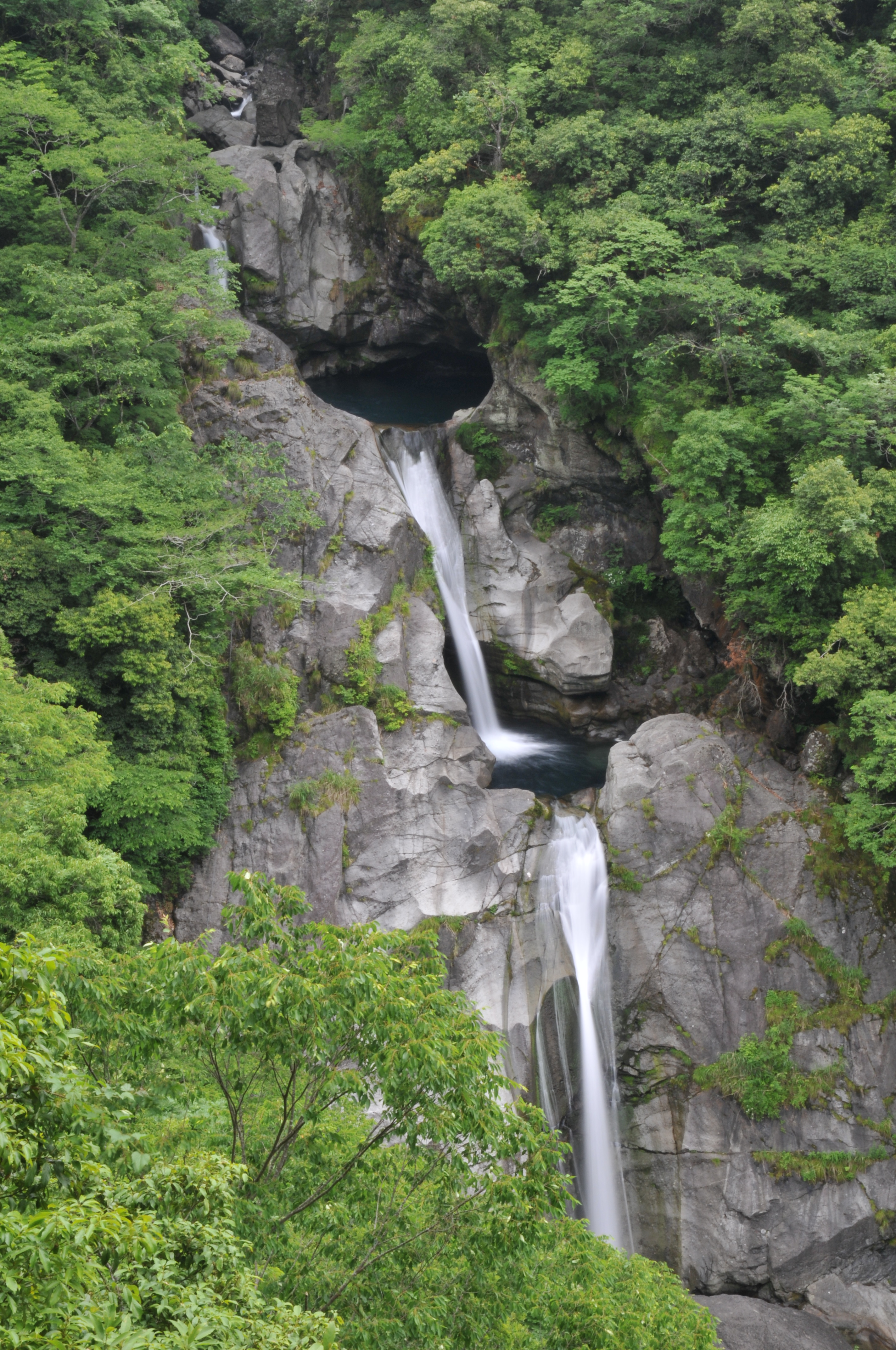 Todoro-no-taki waterfall